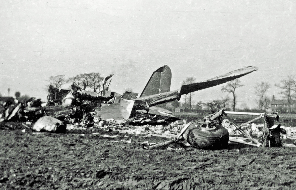 Douglas C-47A G-AJVZ of Air Transport Charter after crashing on take off from Manchester Ringway Airport in 1951